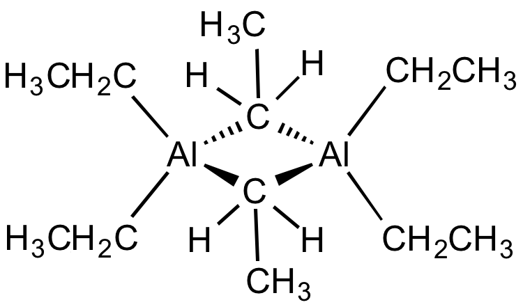 triethylaluminium dimer with correct wedge format